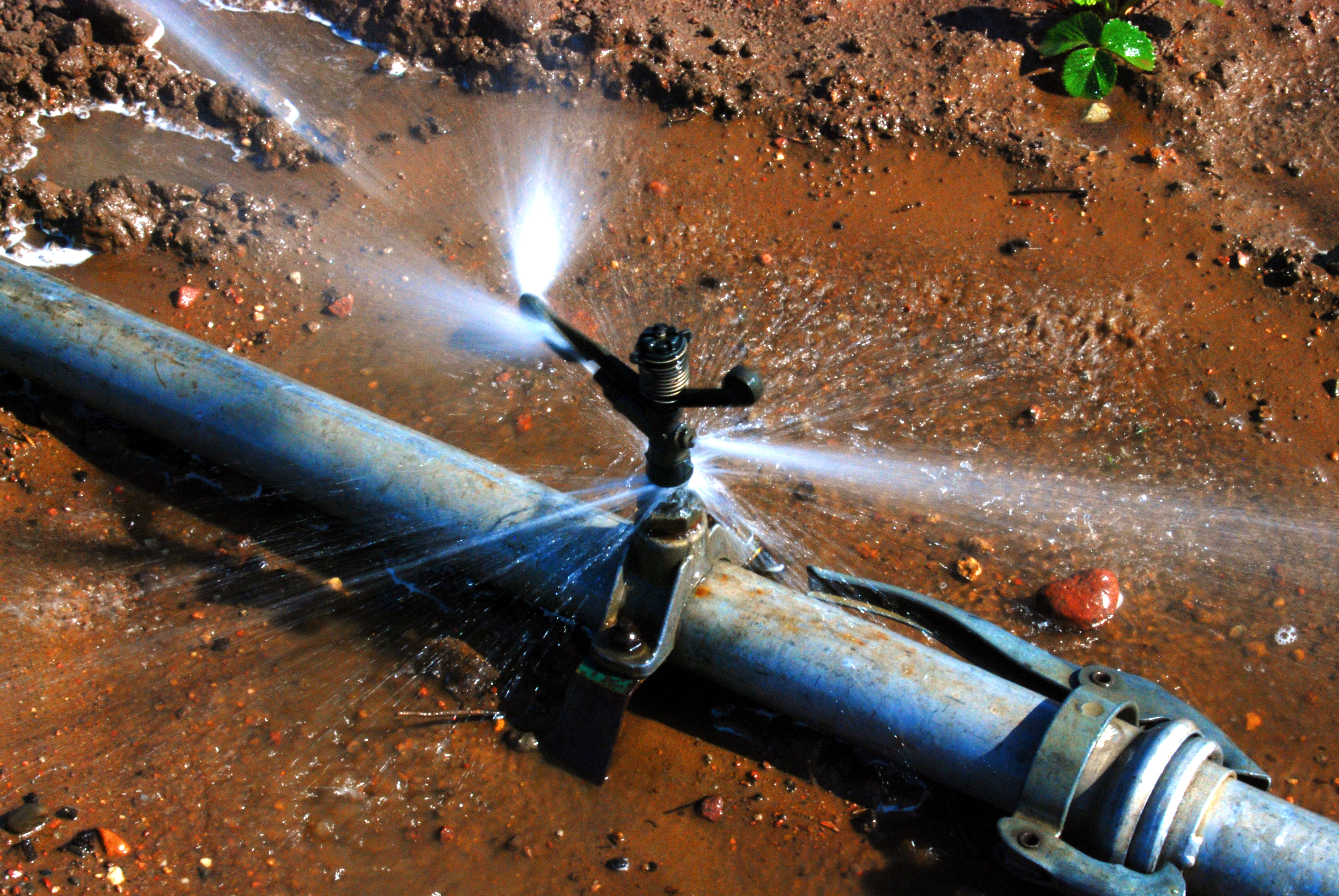 Podlewanie